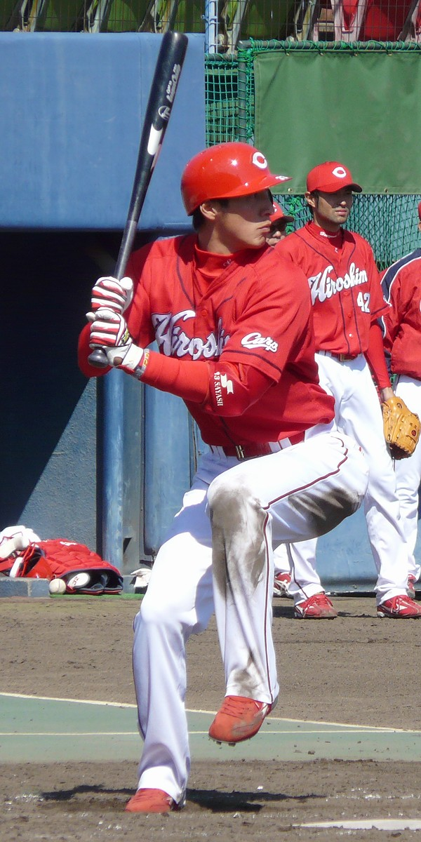 Tomoya-Sayashi